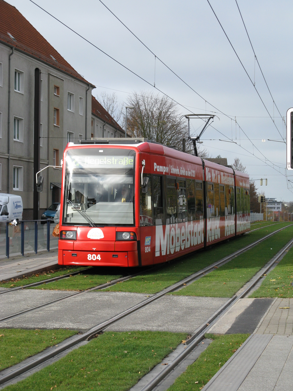 Tram 804 in Schwerin (Germany) on lawn track in Schwerin, Germany